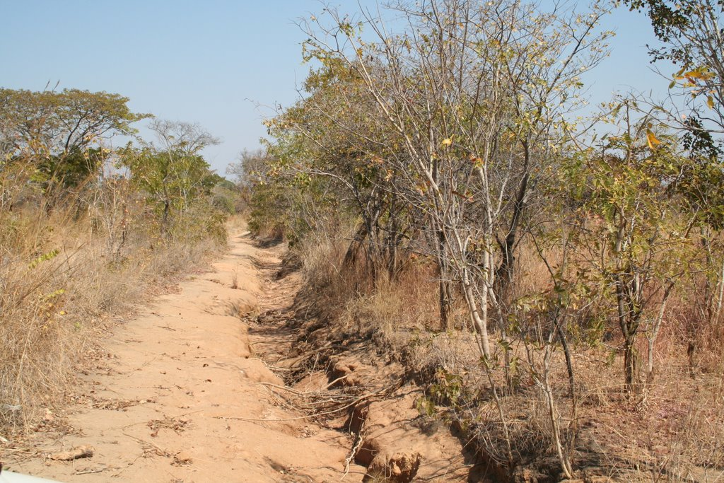 District Road in Zambia. southern province